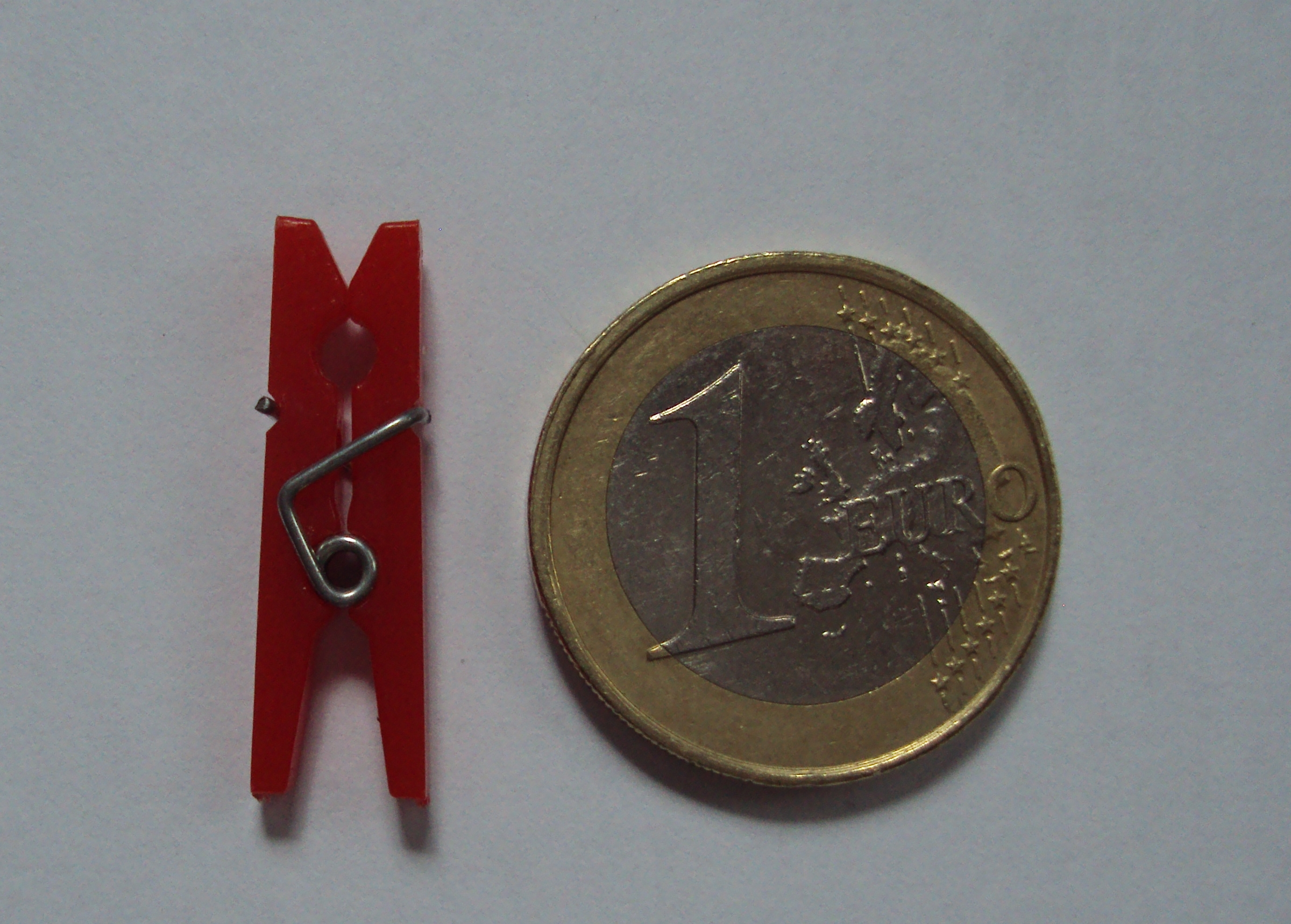 Miniature clothpin